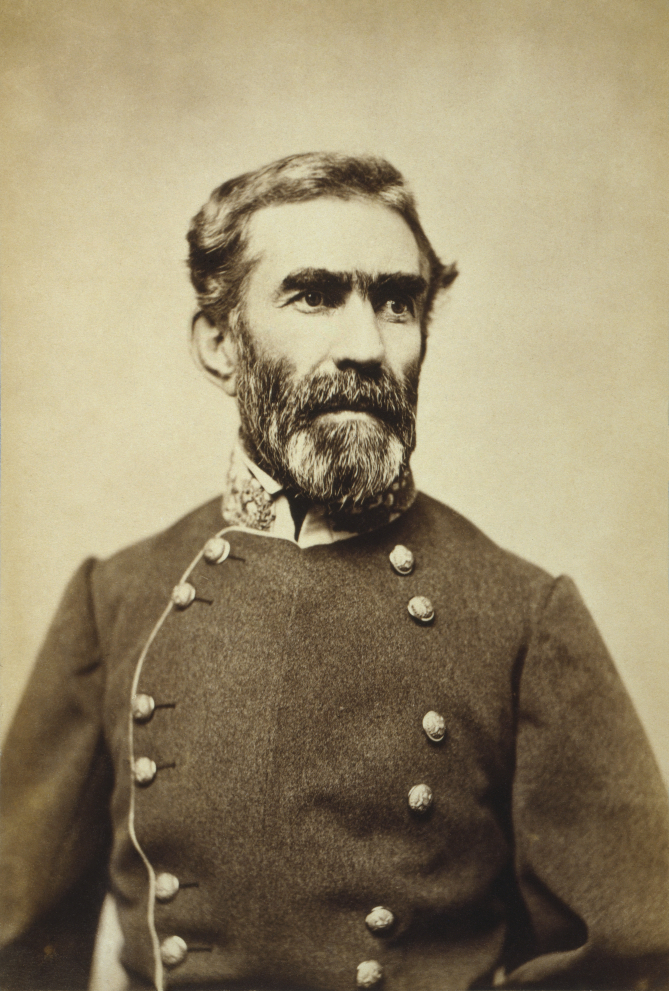 Gen. Braxton Bragg, half-length portrait, facing right